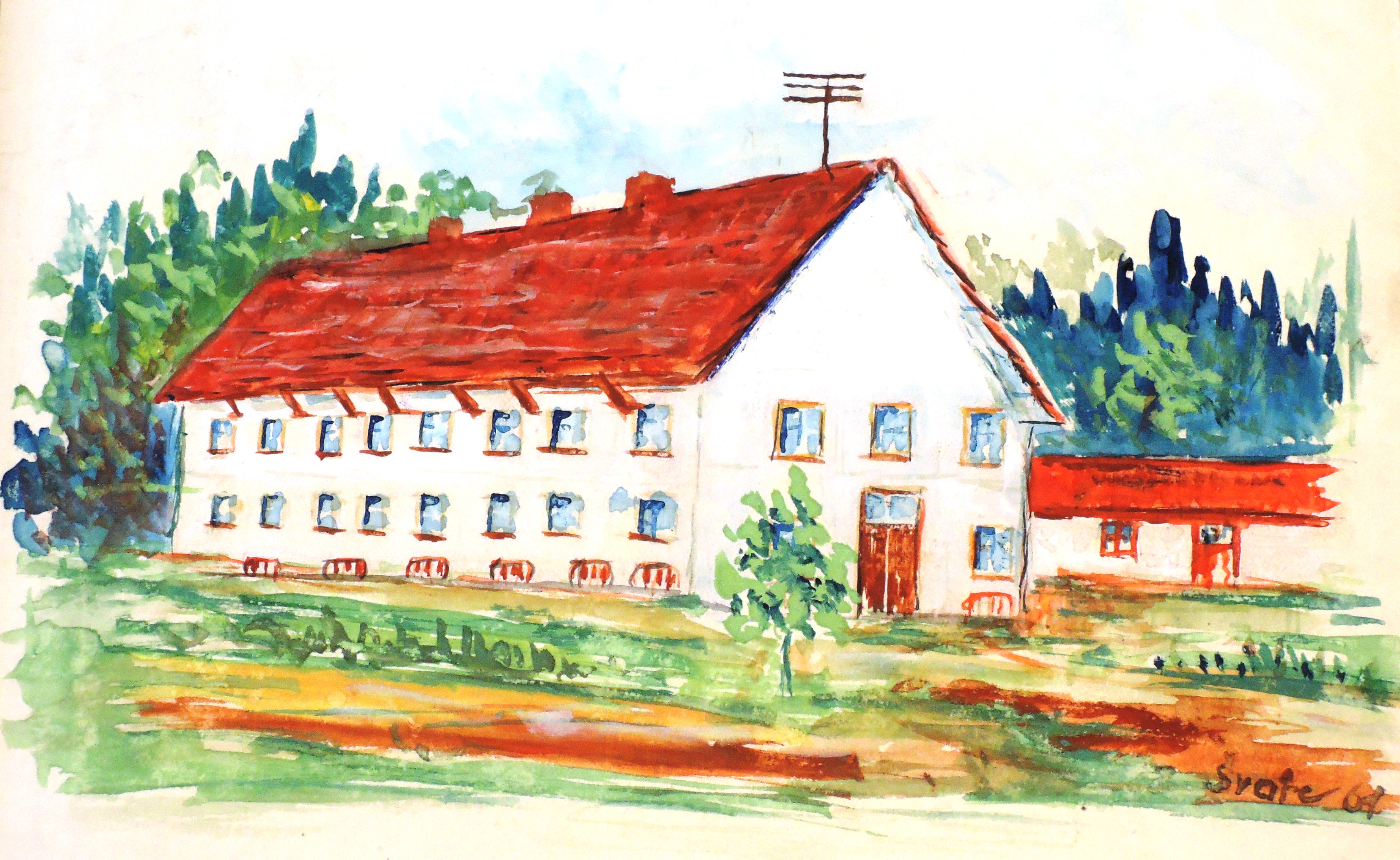 This is a painting in school chronicle made by myself in 1980s. There is the school building in state of 60s.